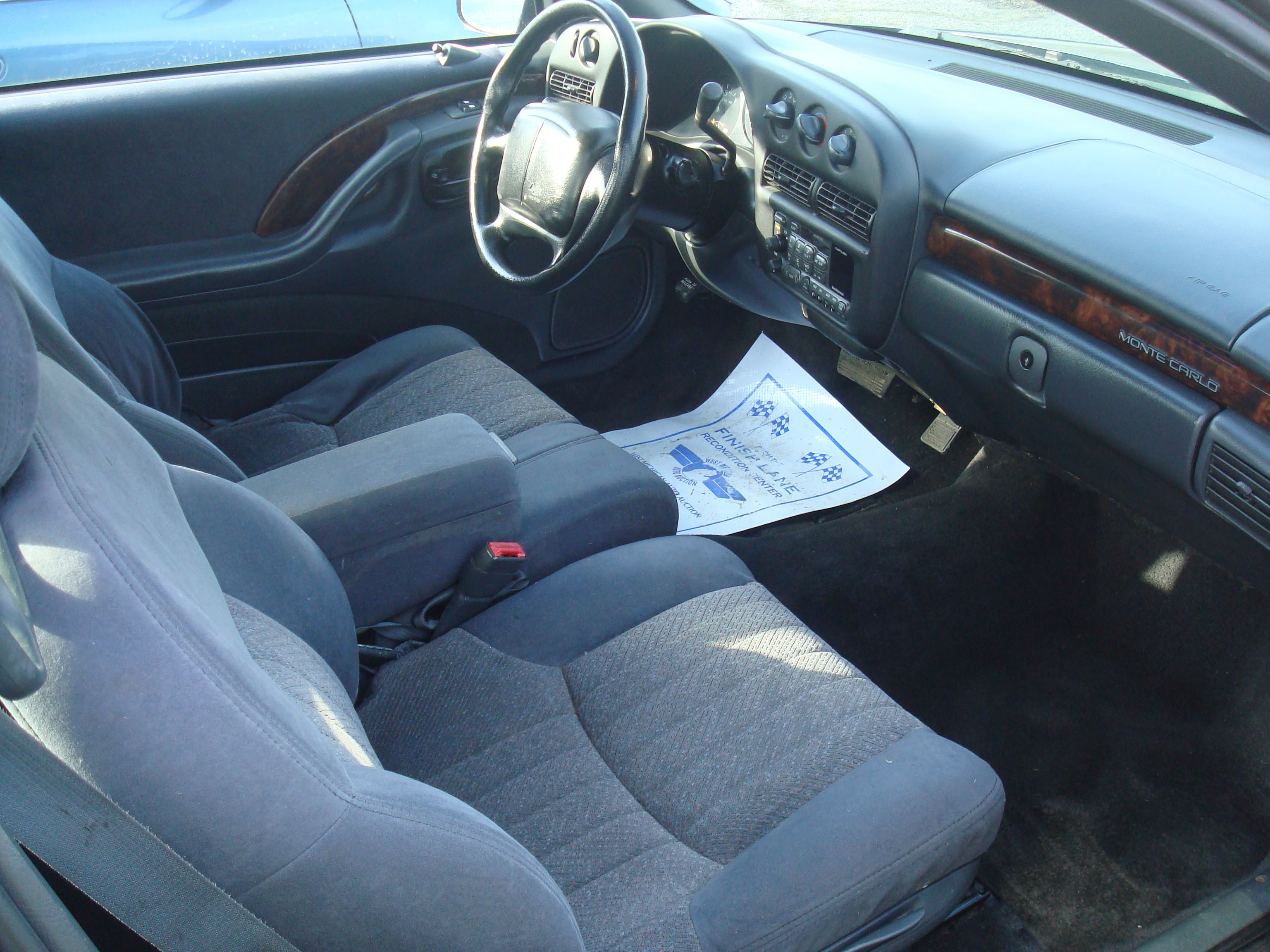 1997 Chevrolet Monte Carlo LS with standard front bench seat.